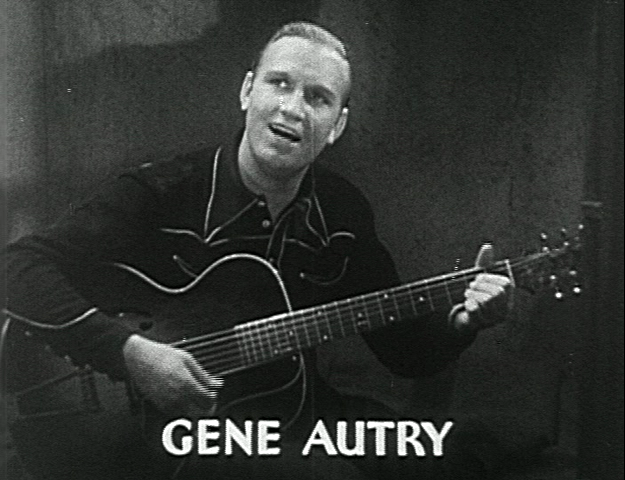 Snapshot from Oh, Susanna! (1936)